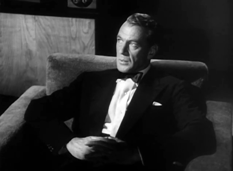 Gary Cooper in film trailer for The Fountainhead, 1949